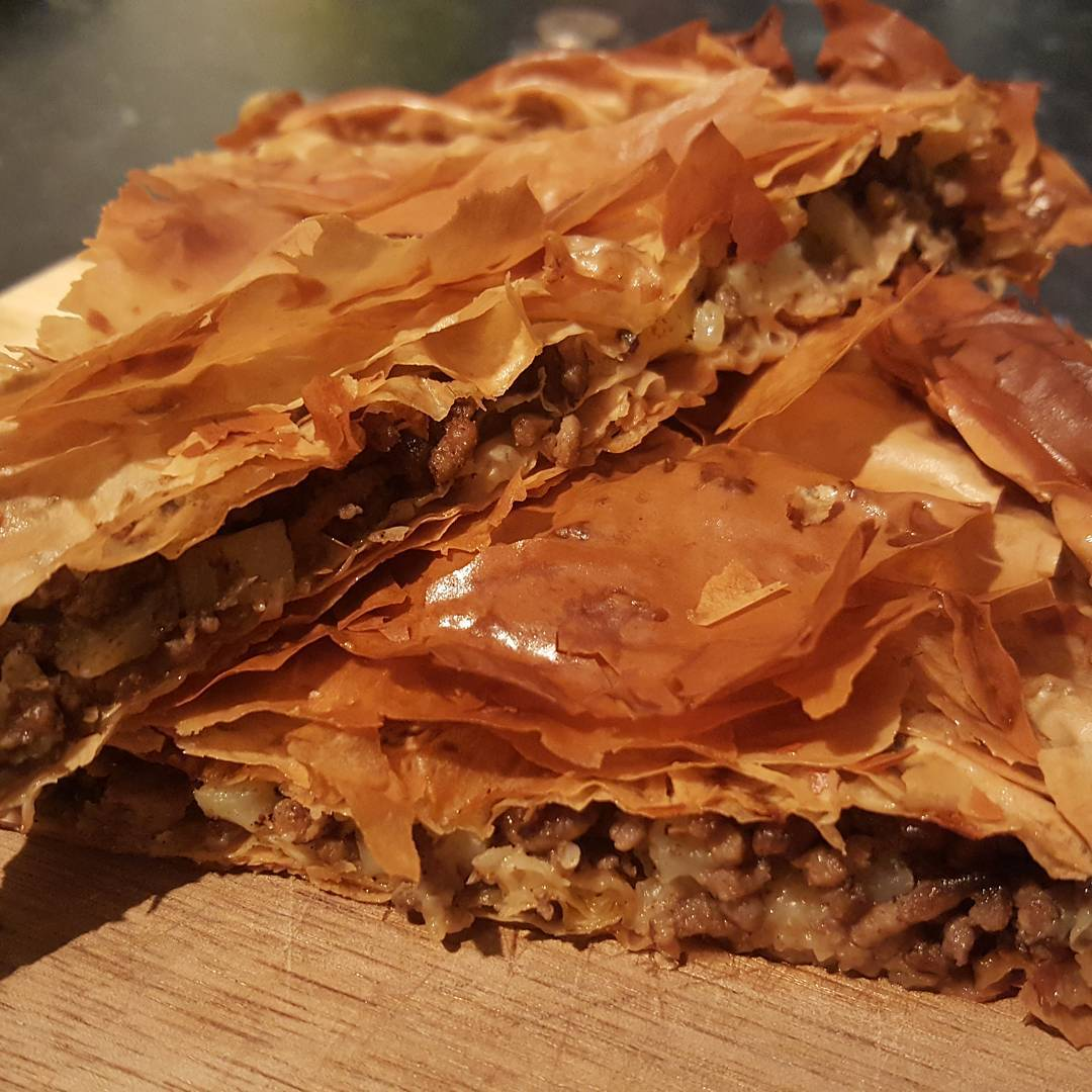 Nothing fills you up more then one of Albania’s most tasty and comforting classic dishes. This flaky pastry pie is stuffed full of mince, onion and potatoes with a warming hint of paprika.